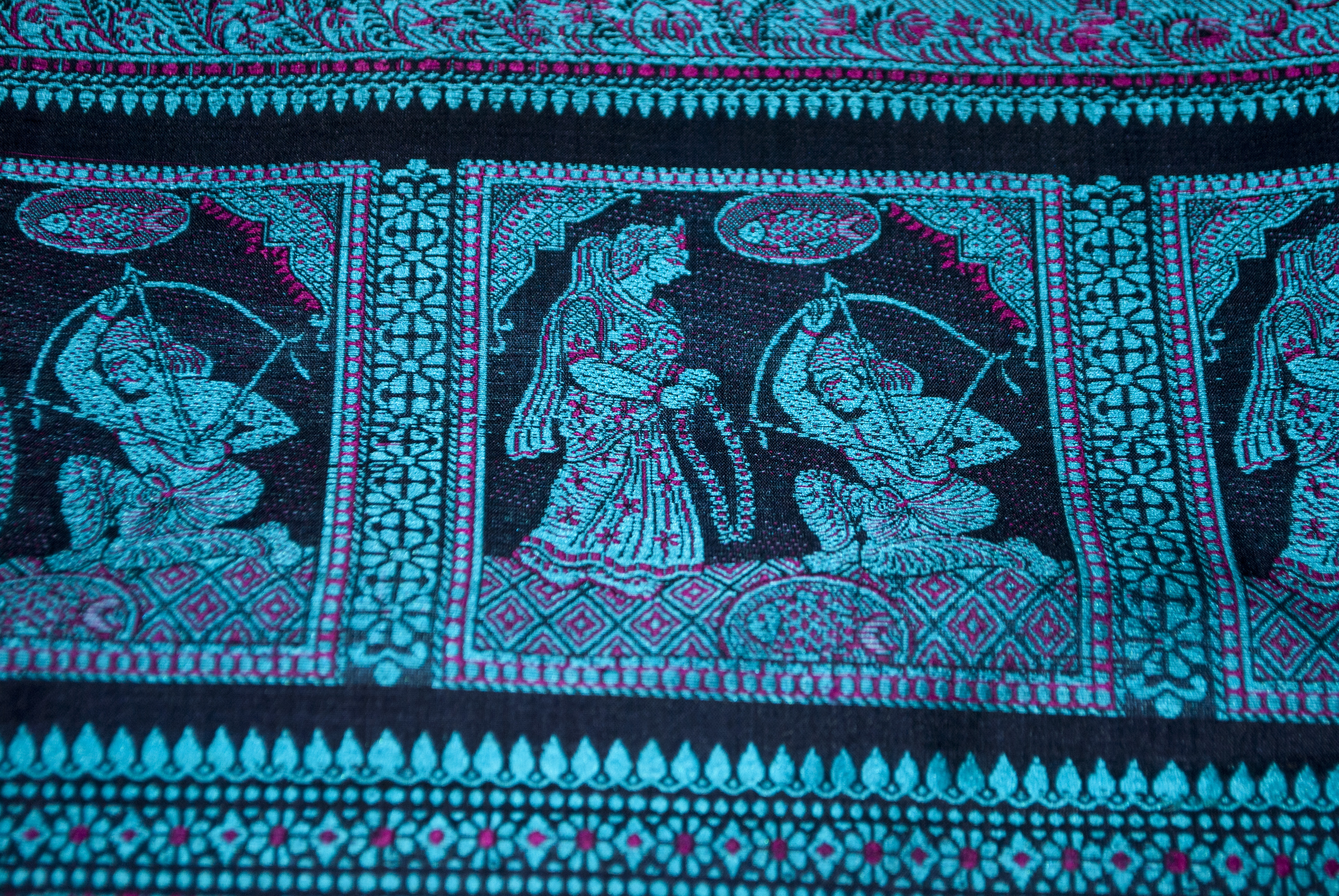 baluchori saree